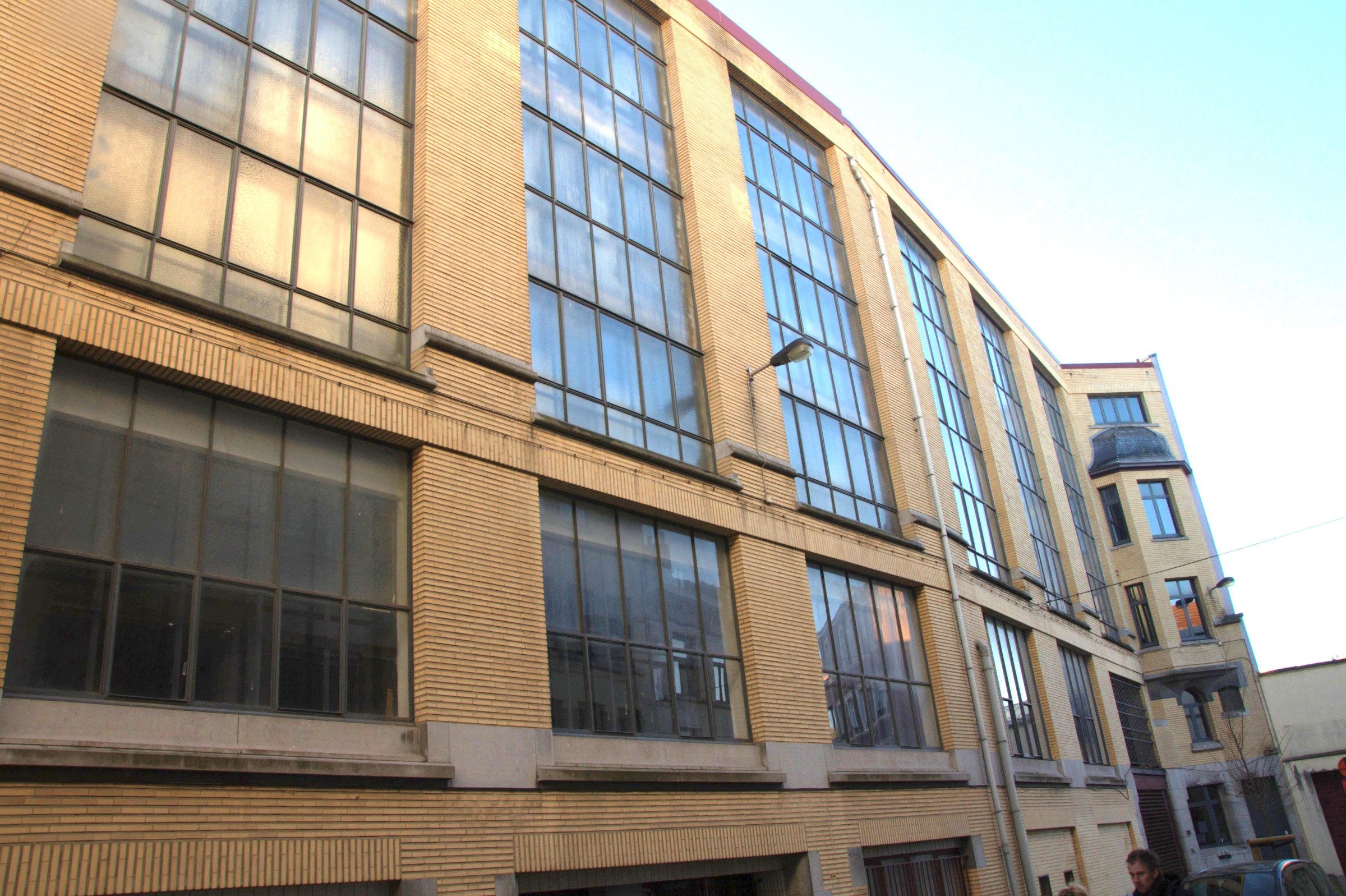 Patrimoine immobilier protégé dans la Région de Bruxelles-Capitale